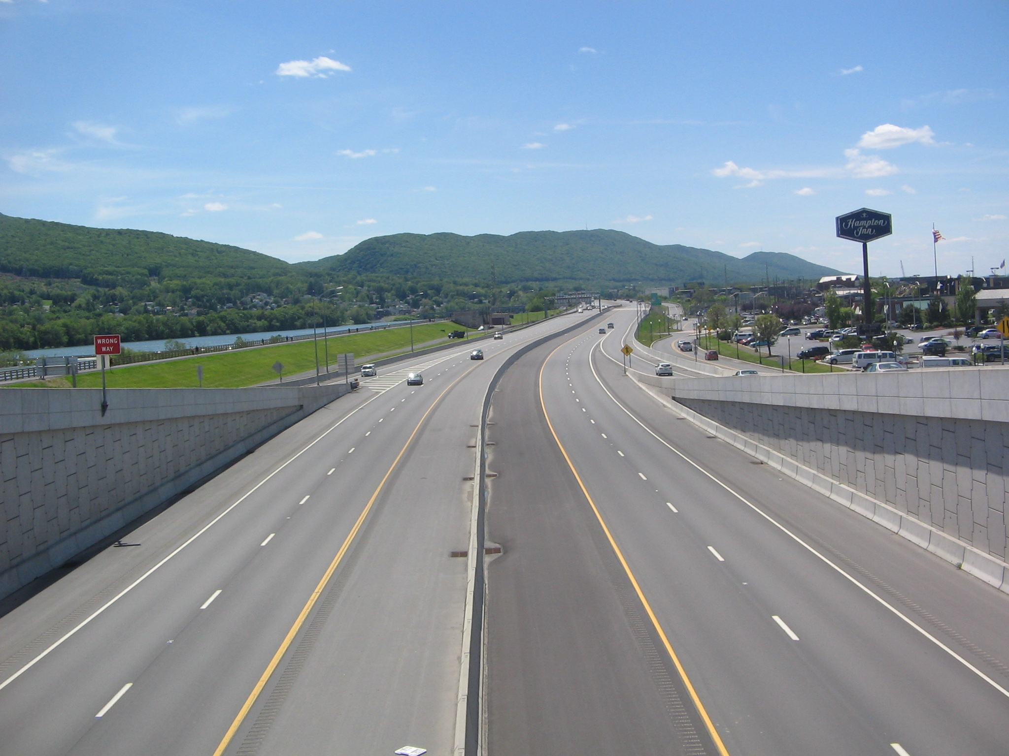 Looking west at Interstate 180 from the Market Street Bridge in the city of Williamsport, Lycoming County, Pennsylvania, USA.